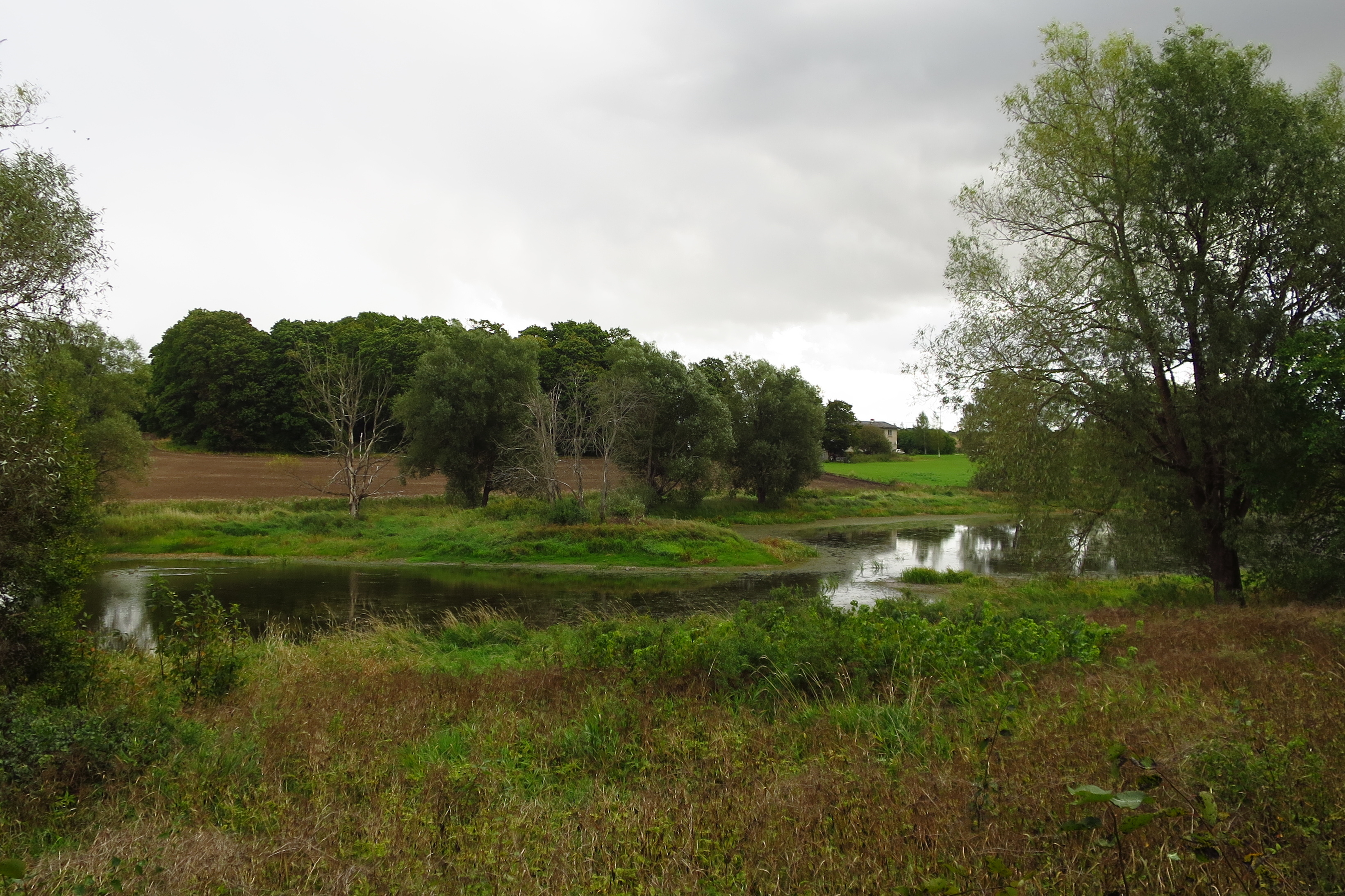 Jõepere järve loodeosa suvel